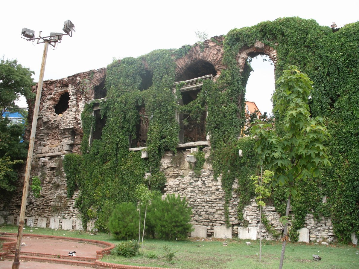 The Palace of Bucoleon.